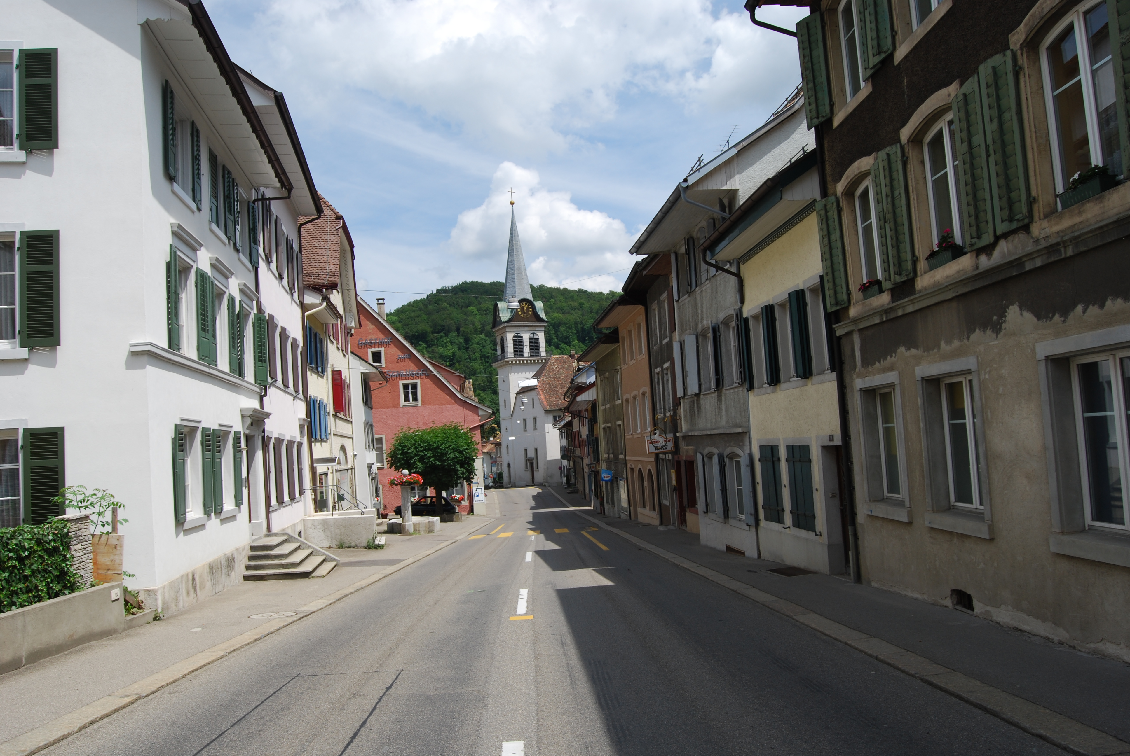 Protestant church of Waldenburg, canton of Basel-Country, Switzerland